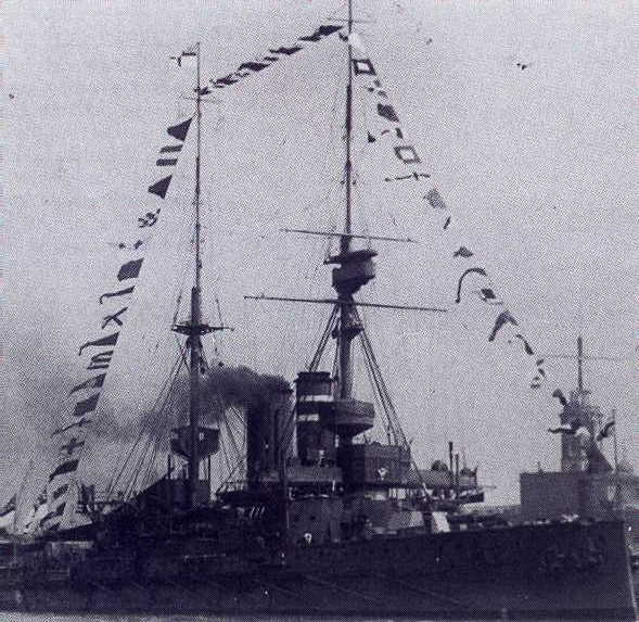 HMS Prince of Wales (1902) dressed overall at Portsmouth Dockyard in 1912